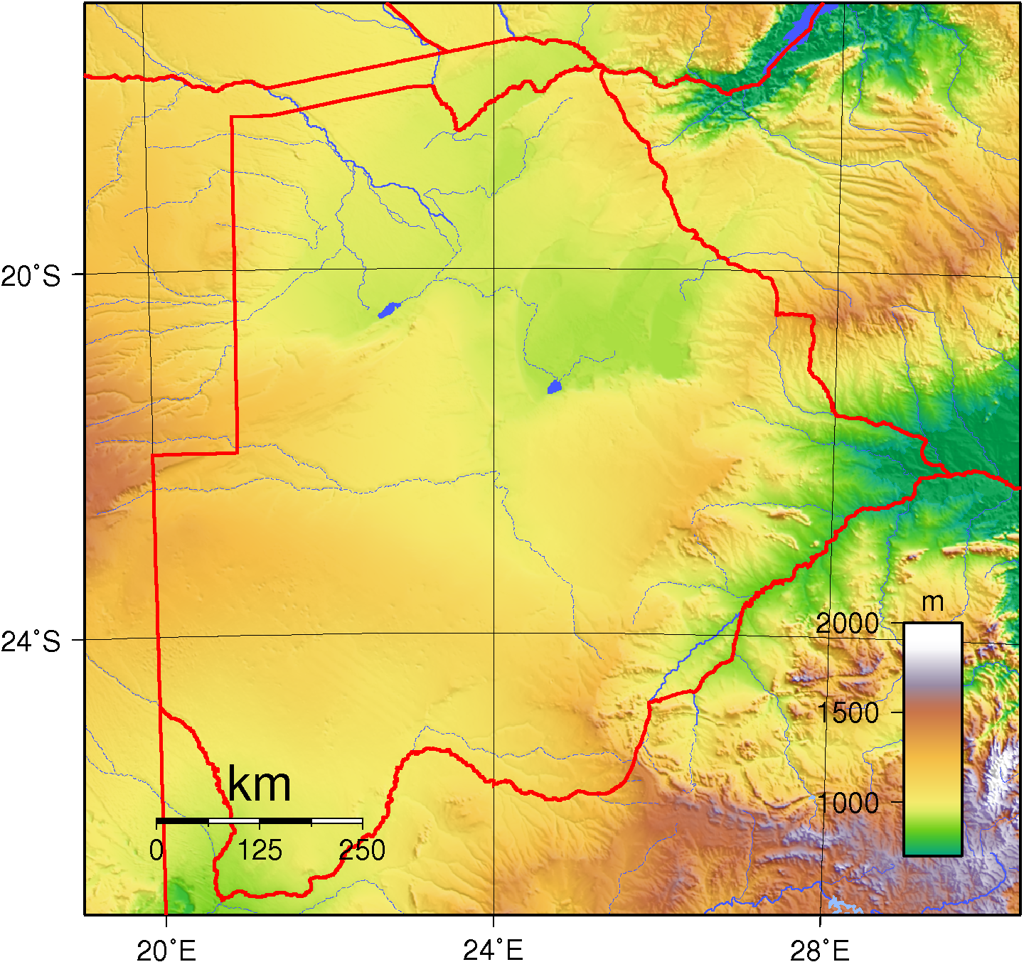 Topographic map of Botswana. Created with GMT from public domain GLOBE data